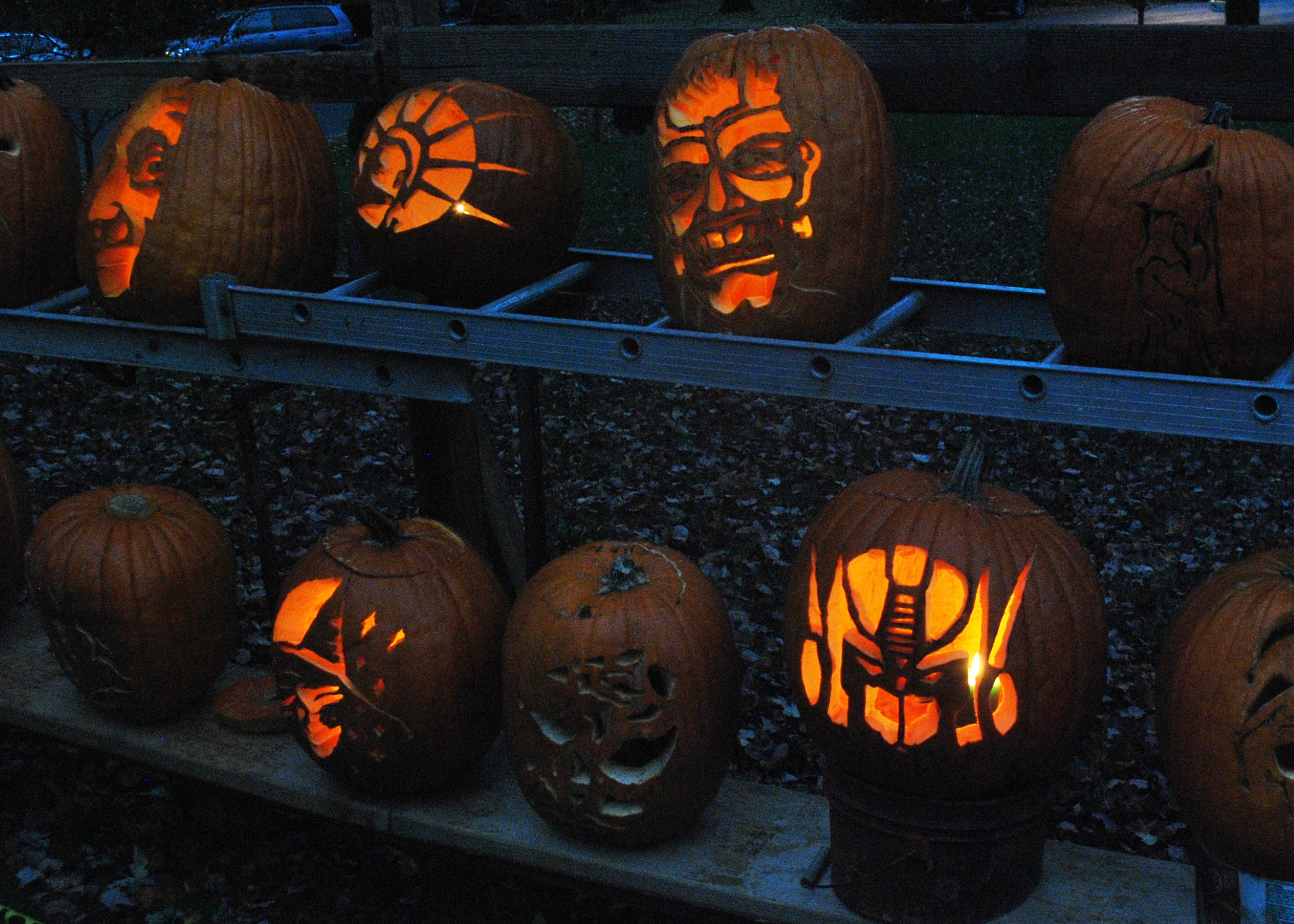 Holtorf Pumpkin Carving Association - Vienna VA